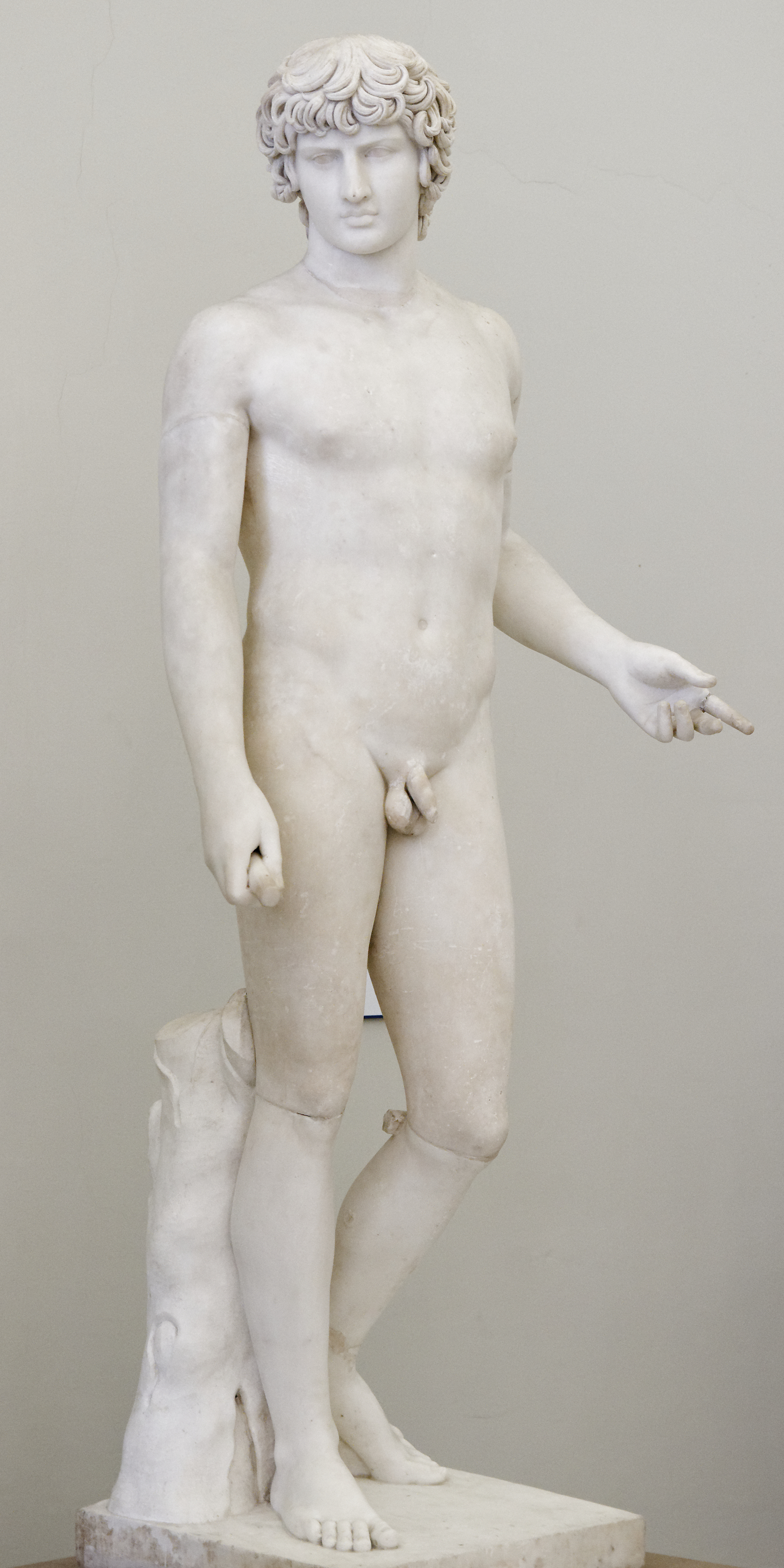 Statue of Antinous. Reelaboration of the 2nd century AD after a Greek original of the Late Classical period.